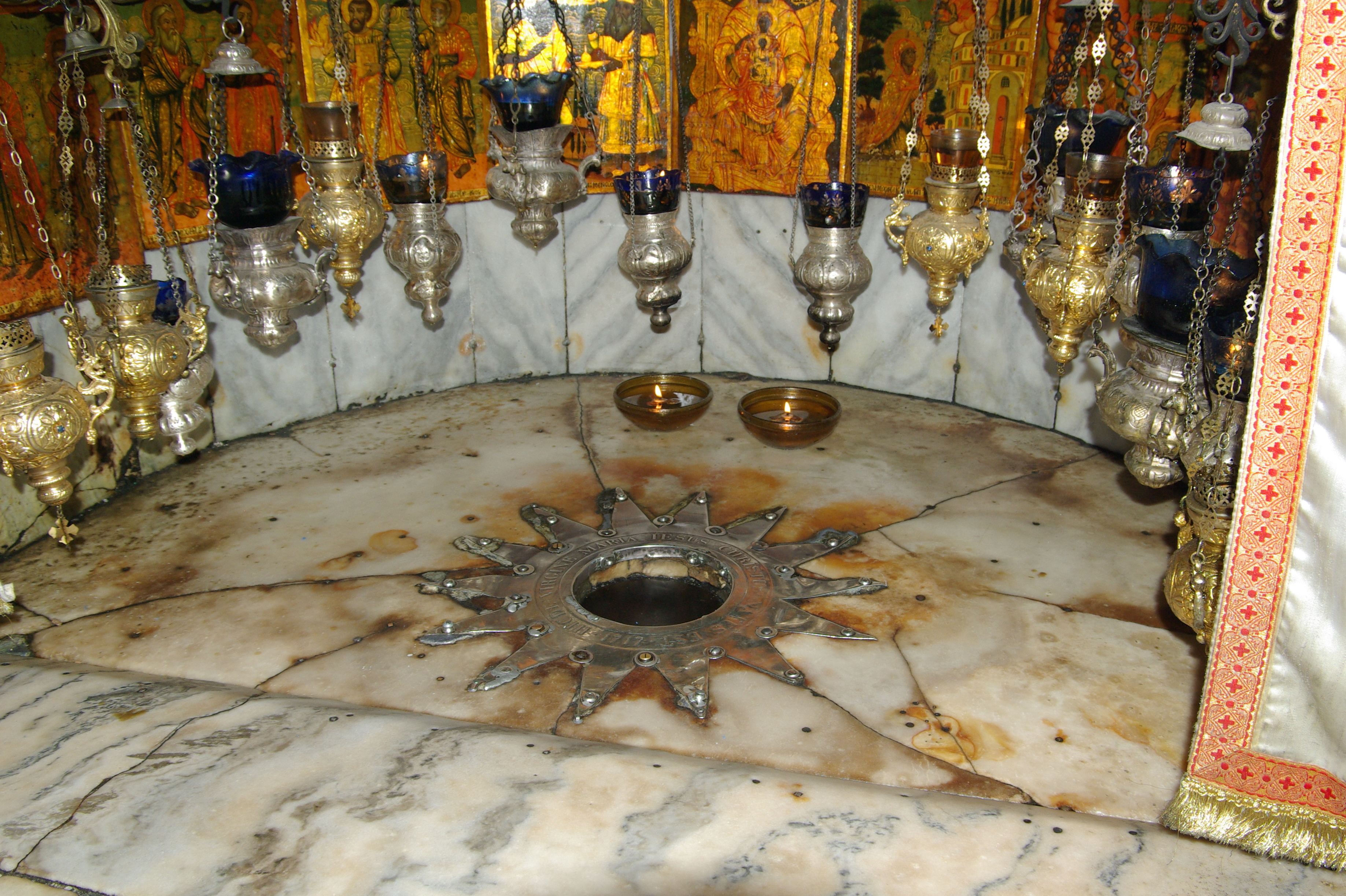 Bethlehem, Church of the nativity